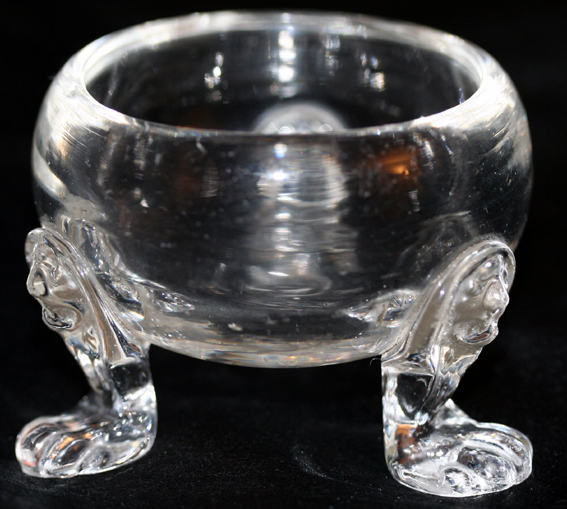 A very rare crystal salt cellar — of silver form with three lion heads and foot legs. English ca 1720. 47 mm high.